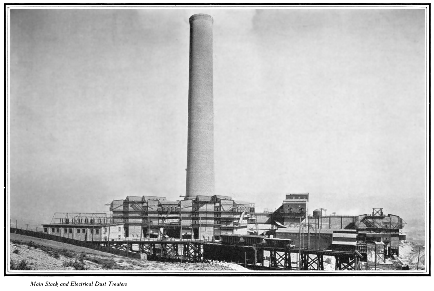 The Anaconda Smelter Stack of the Washoe Works of the Anaconda Copper in 1920. At its foot are the Electrostatic precipitators of the smelter.